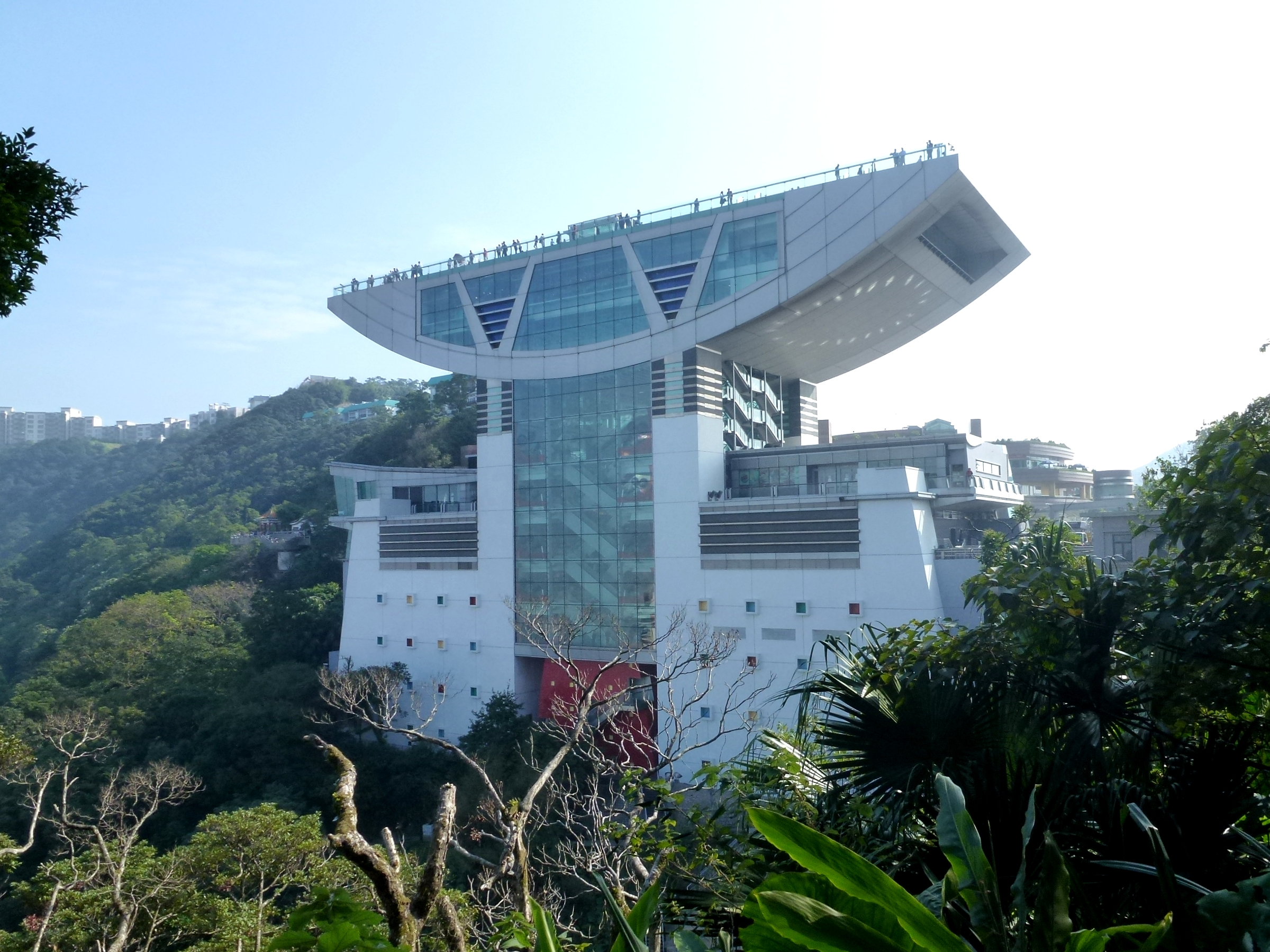 Peak Tower Victoria Peak Hong Kong